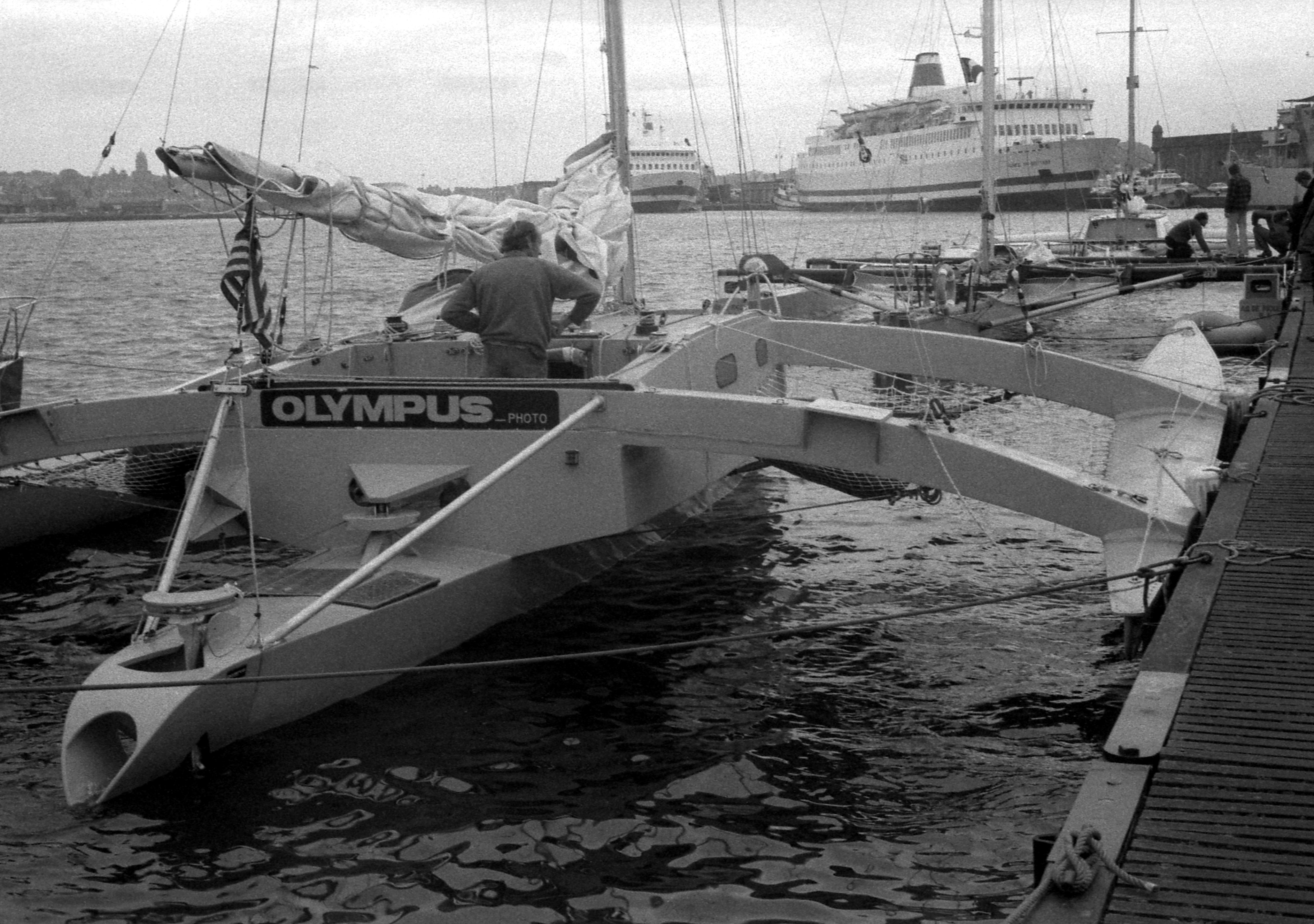 Olympus photo, the trimaran skipped by Mike Birch during the first «Route du Rhum».